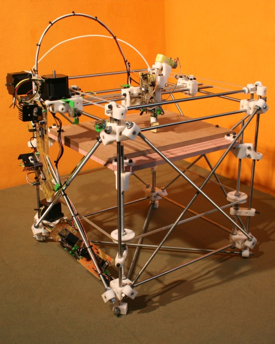 Uploaded from The RapRap Project is a wholly open-source initiative and Adrian Bowyer (founder) has confirmed the image can be release as GFDL.